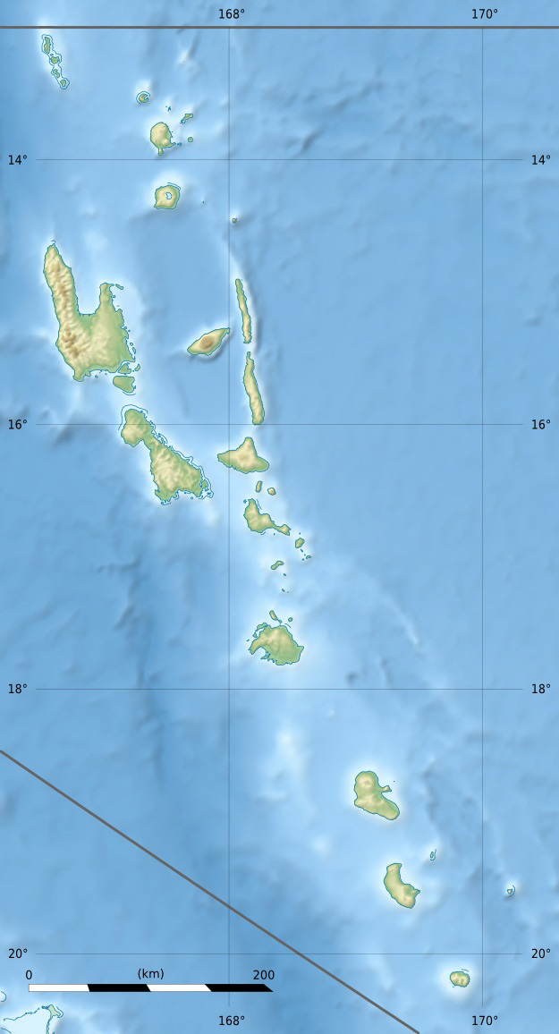 Blank physical map of Vanuatu in Oceania, for geo-location purpose.